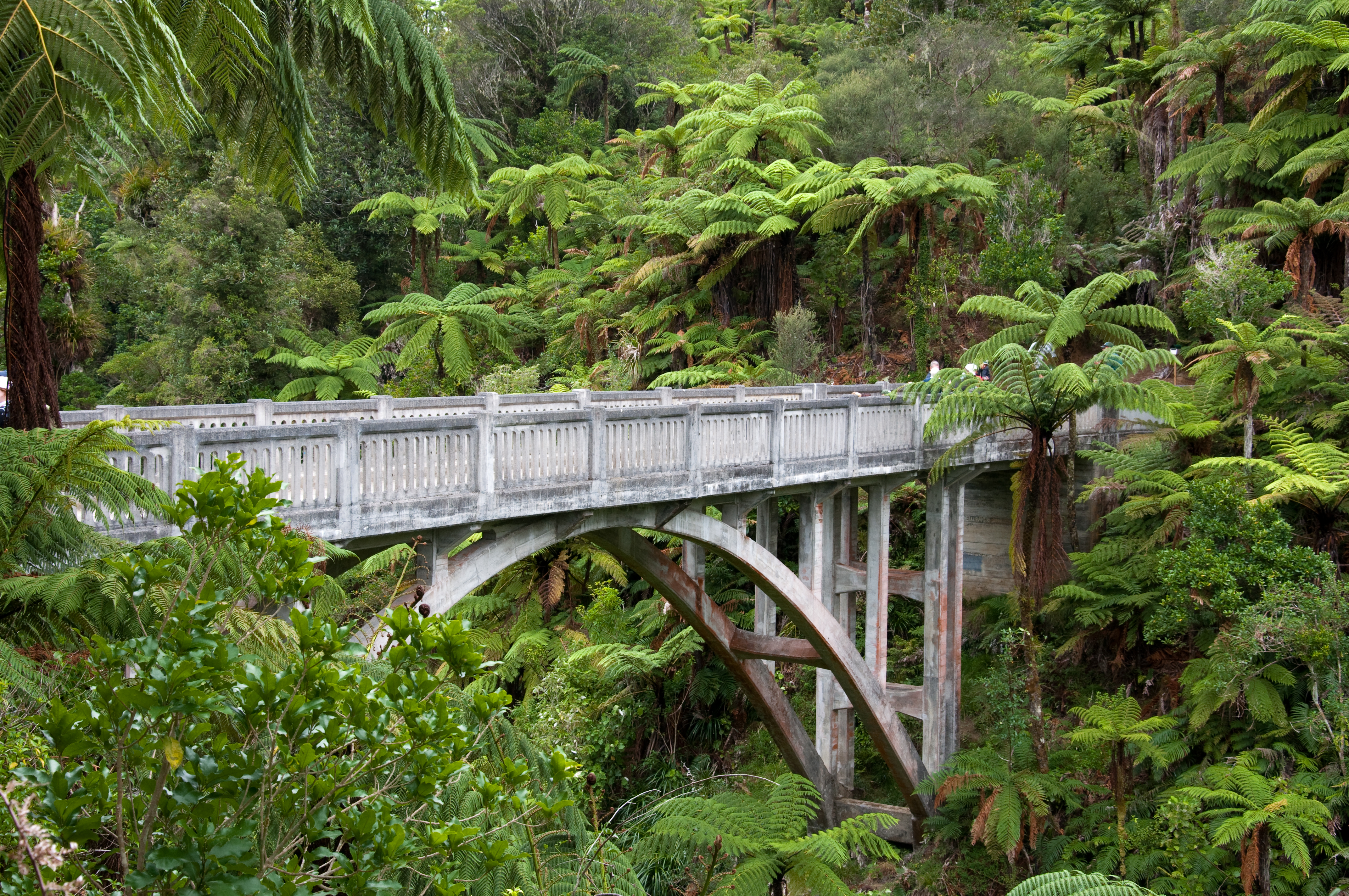 The Bridge to Nowhere - about a 40 minute walk from the bank of the Whanganui River.